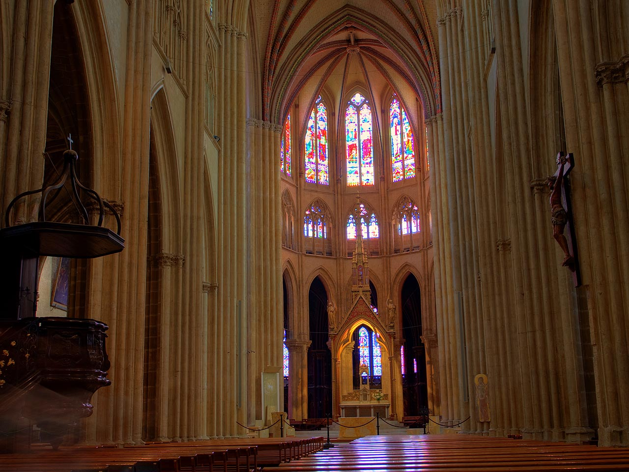 The Cathédrale Sainte-Marie in Bayonne, France. A imposing, elegant Gothic building, rising over the houses, glimpsed along the narrow streets.